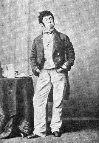 Publicity photograph of Fred Sullivan taken circa 1870, long in the public domain.